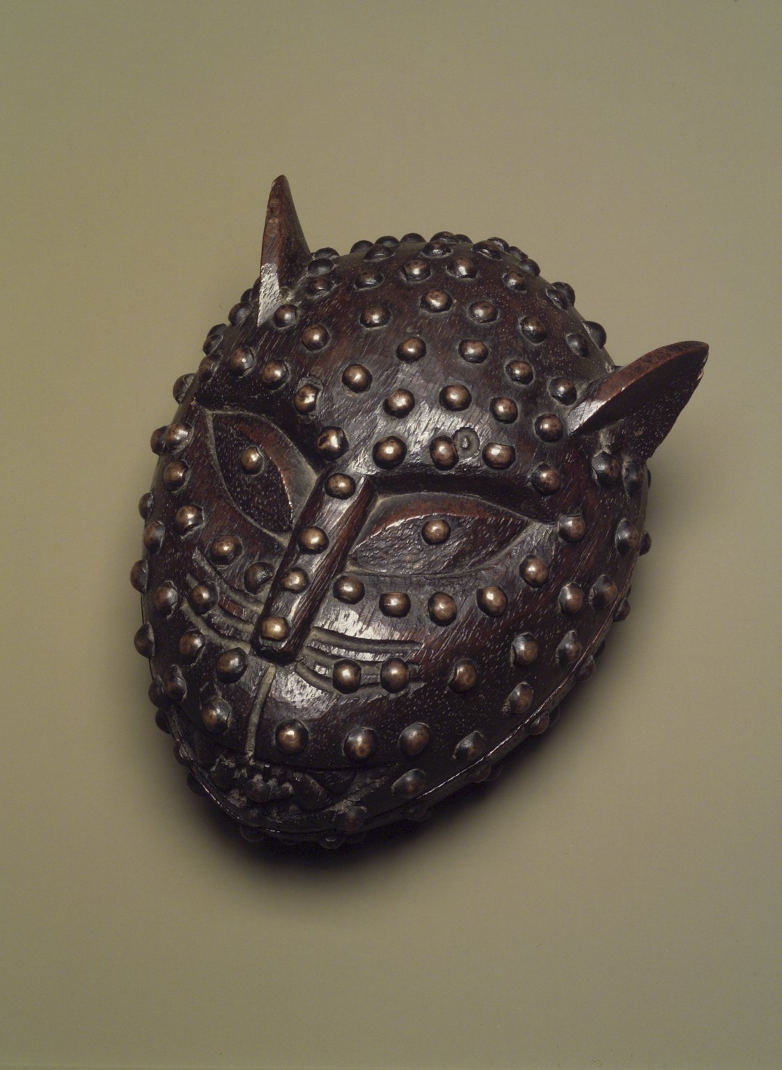 Box in form of feline head, wood with metal tacks over surface, ears protrude, teeth and fangs represented. Condition: generally good, slightly chipped.